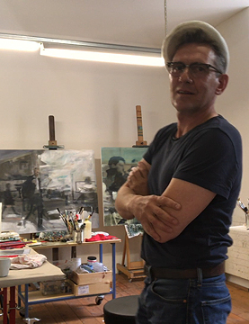 andré schmucki